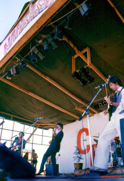 Image (photograph) taken at the Nambassa festival 1978 by the Official Nambassa Photographer and uploaded by User:Mombas, Nambassa dot com Terms of Use: 1/ All users of this image are required to attribute this work to "Nambassa Trust and Peter Terry" and the URL: " " is to accompany all use. 2/ Attribution. You must attribute the work in the manner specified by the author or licensor. 3/ For any reuse or distribution, you must make clear to others the license terms of this work. Statement by Nambassa Trust and Peter Terry